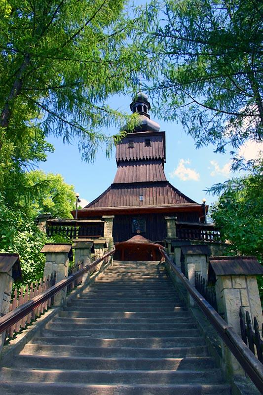 Lodygowice Church in Poland